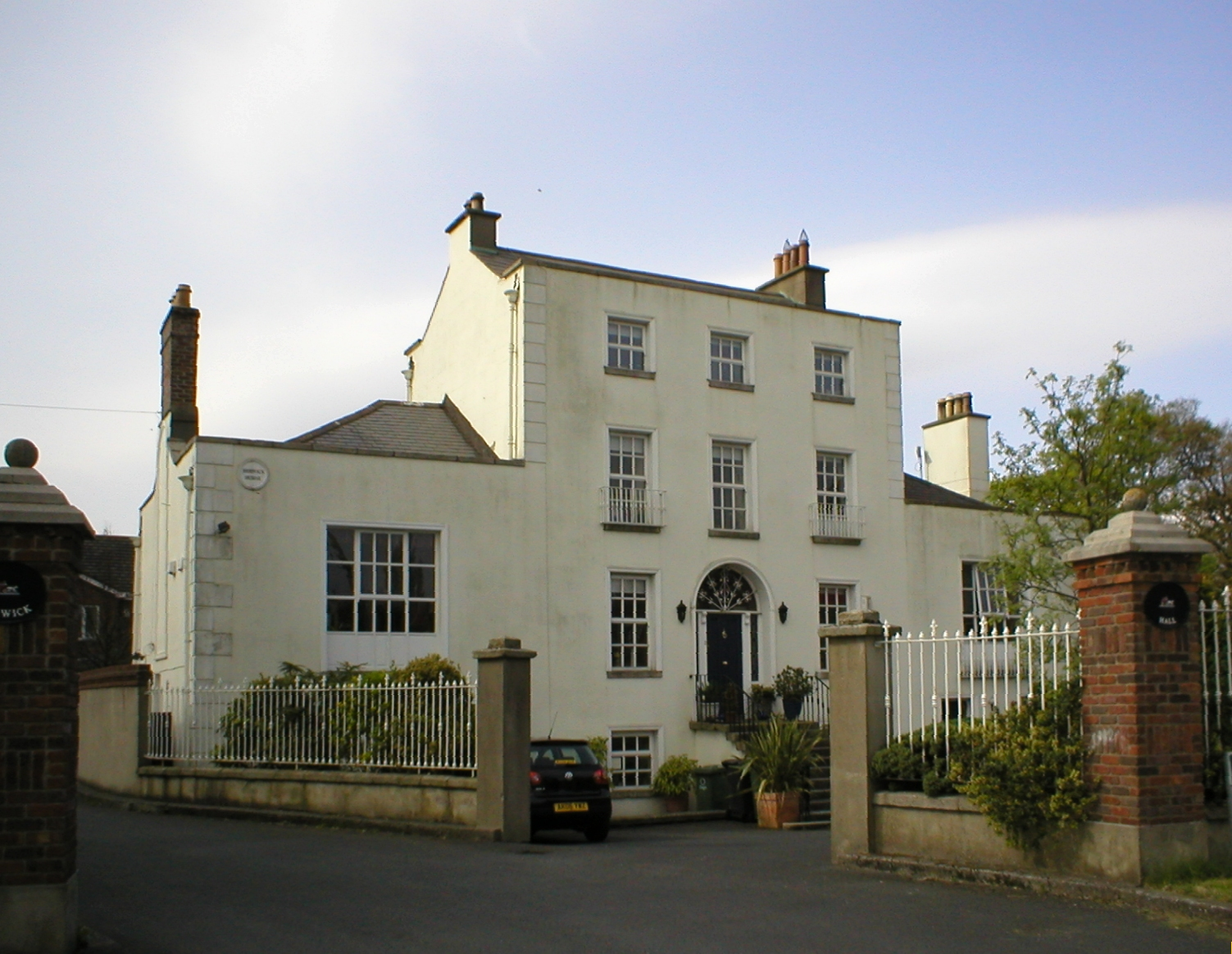 original digital image Suckindiesel 20:09, 15 April 2007 (UTC)